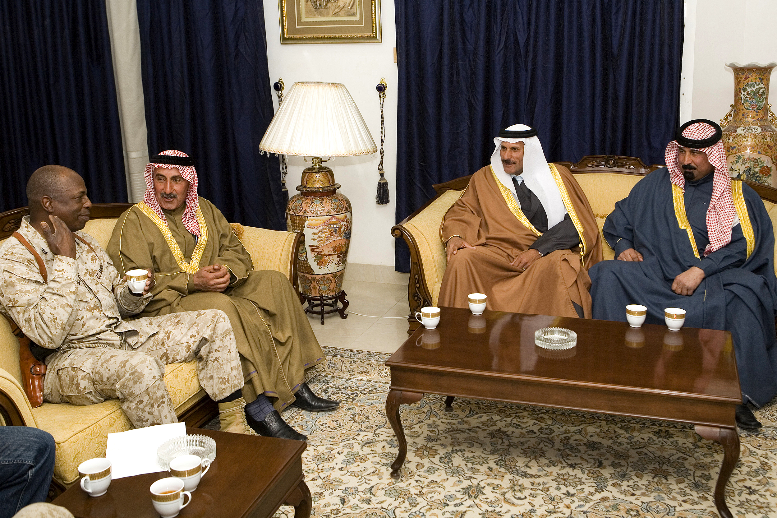 In Camp Fallujah, Iraq, local sheiks listen to U.S. Marine Corps Major General Walter E. Gaskin, Commanding General of Multi National Forces - West (MNF-W) on January 16, 2008. The general is presenting Sheiks in the Al Anbar Province with a Mamluk Sword as a sign of brotherhood and to thank them for their partnership with MNF-W.